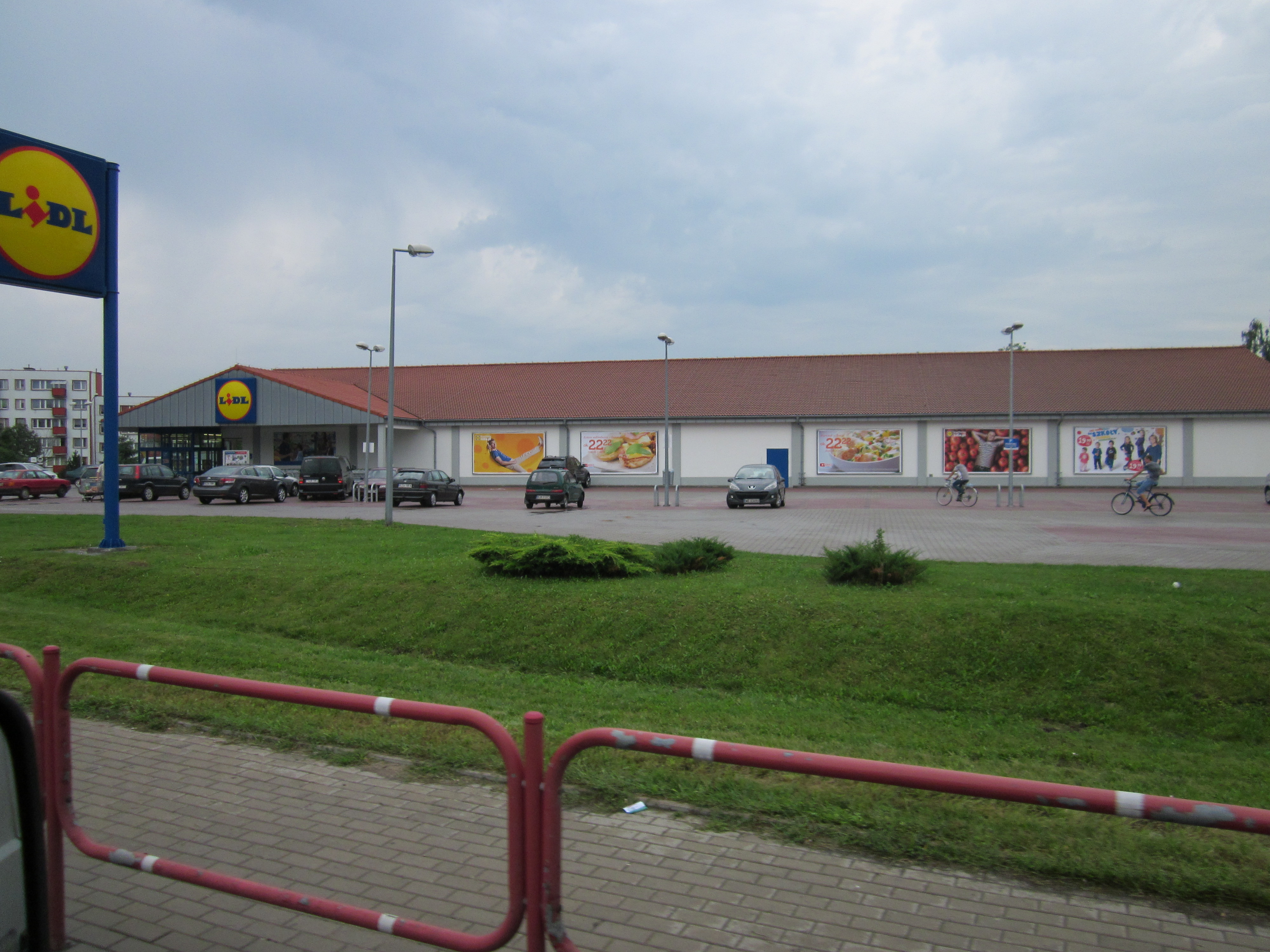 Supermarket - Lidl in Zambrowie (14 Białostocka Street).